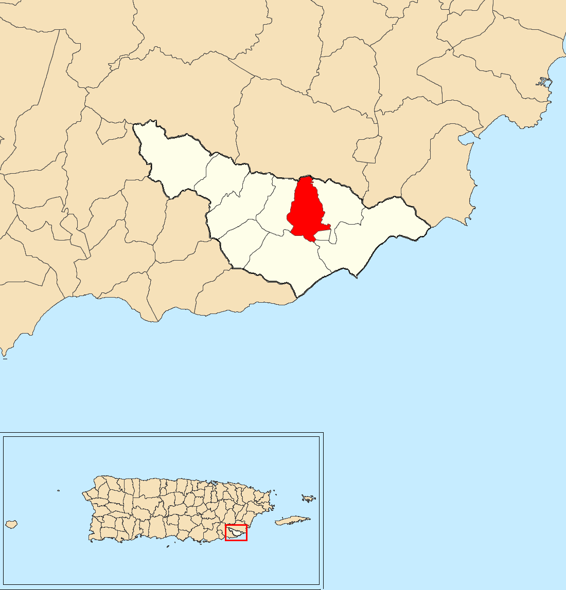 Talante, Maunabo, Puerto Rico locator map